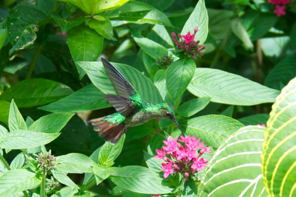 Violet-capped Hummingbird (Goldmania violiceps), female, Panama